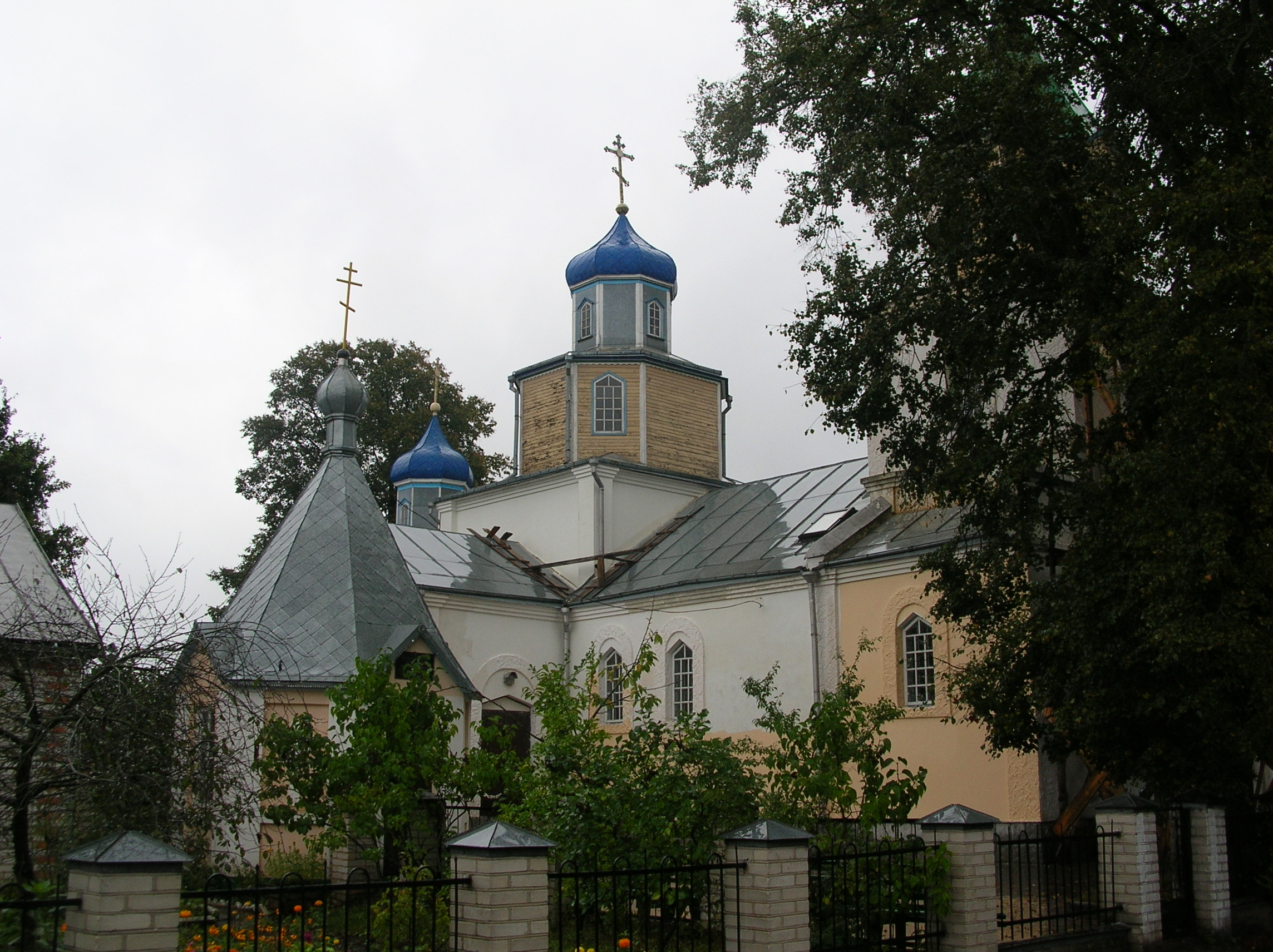 Eastern Orthodox church in Kivertsi, Ukrainian Orthodox Church (Moscow Patriarchate)